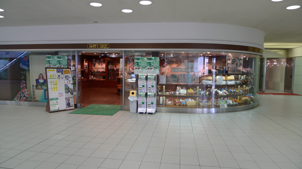 Hanshin Racecourse